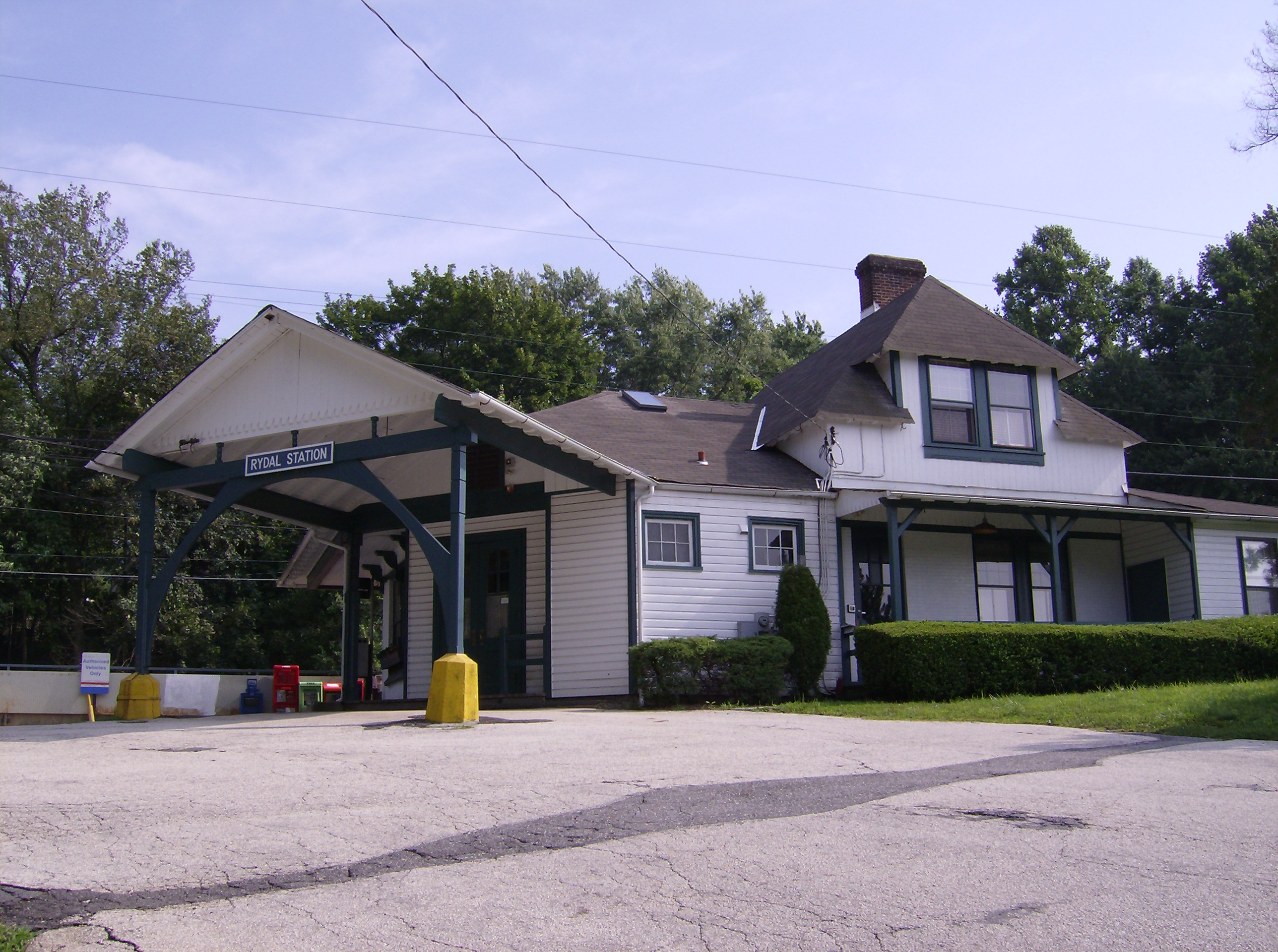 Rydal's original Reading Railroad station house and post office at the north parking lot off of Susquehana Road. A sheltered shed is on the south side on Washington Avenue.